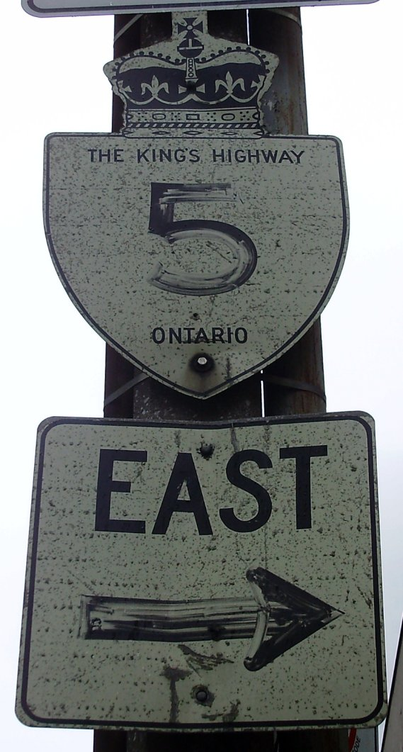 A trailblazer directing drivers to Ontario's Highway 5 (Bloor Street), mounted on a light standard at the intersection of Bay Street and Cumberland Street in Toronto, Canada.